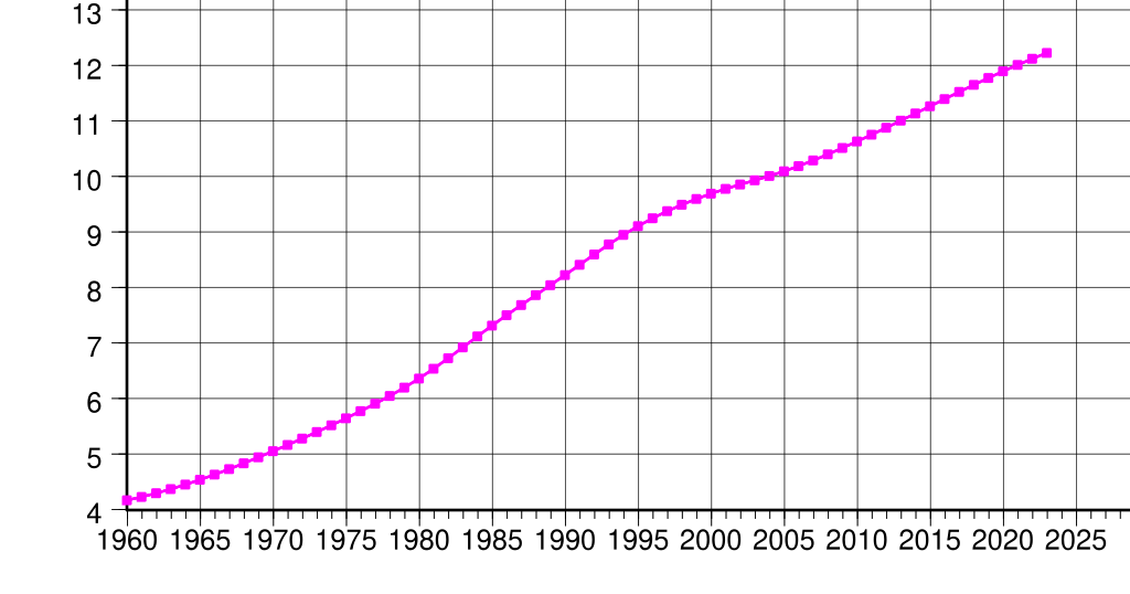 Subject: Tunisia's population (1961-2011). Y-axis : Number of inhabitants in thousands